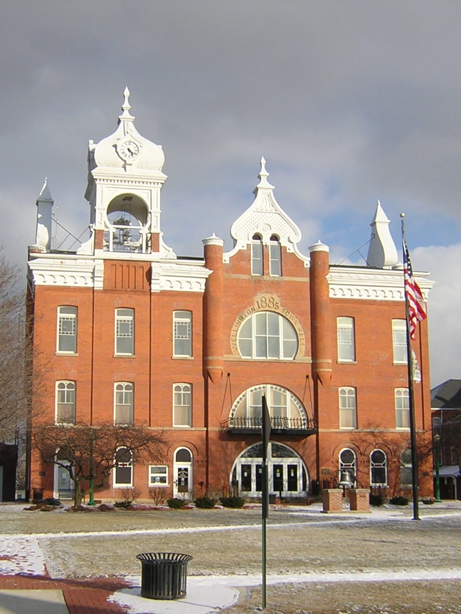 A scene from Wellington, a village in Lorain County, Ohio, United States. This is the Wellington Township town hall.